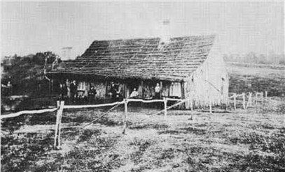 Volcano House Hotel circa 1866, at the edge of Kilauea volcano. Mark Twain stayed here and wrote about it in his book "Roughing It".